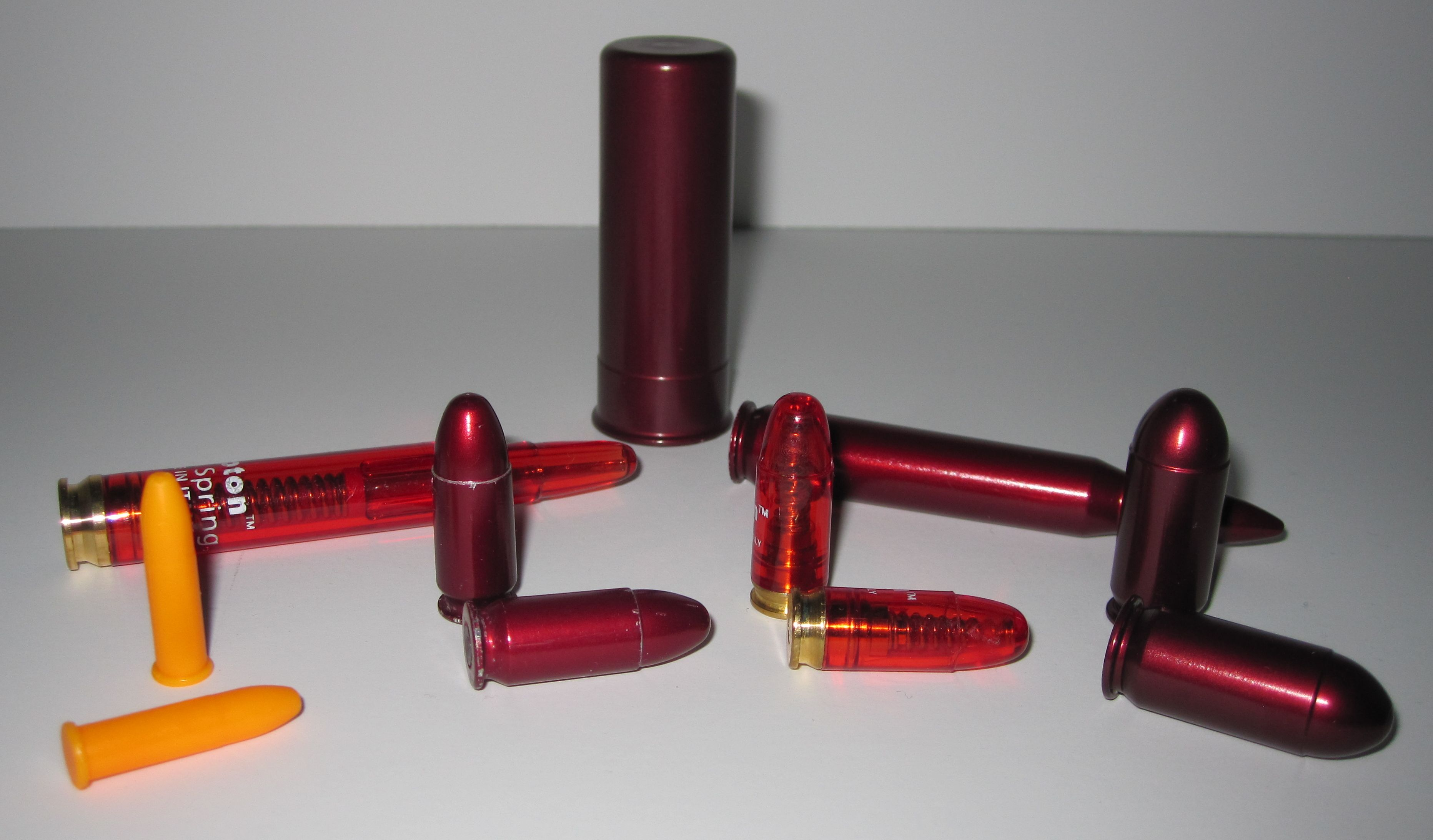 An assortment of snap caps of different calibers (.22LR, 9mm, .45 ACP, .30-06,12-guage).